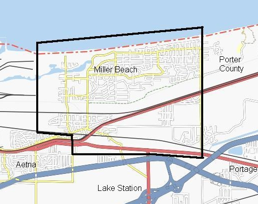 Map showing Miller Beach neighborhood in Gary, Indiana, and environs. This map may be incomplete, and may contain errors. Don't rely solely on it for navigation.